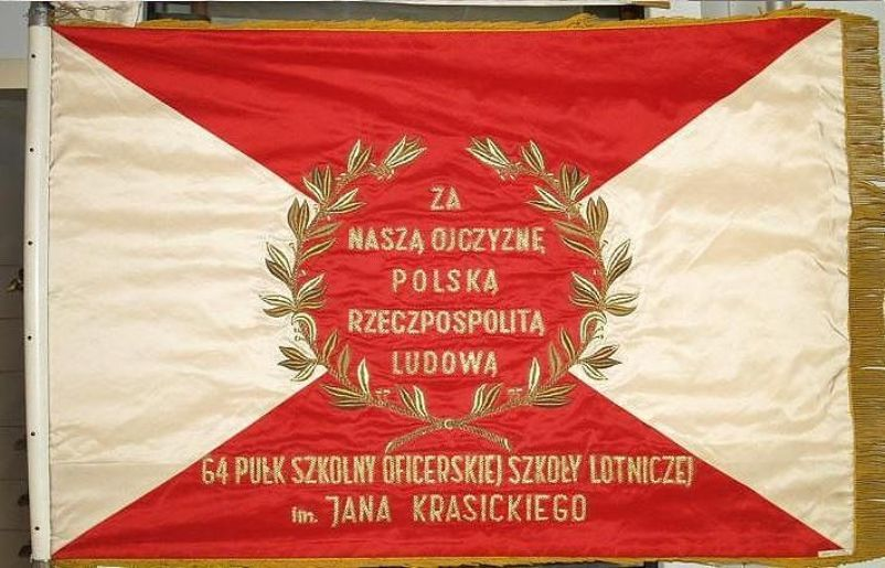 Sztandar 64 Pułku Szkolnego OSL im. J. Krasickiego, wręczony 27.11.1960 dla przasnyskiego pułku przez gen. bryg. Władysława Szczepuchę.